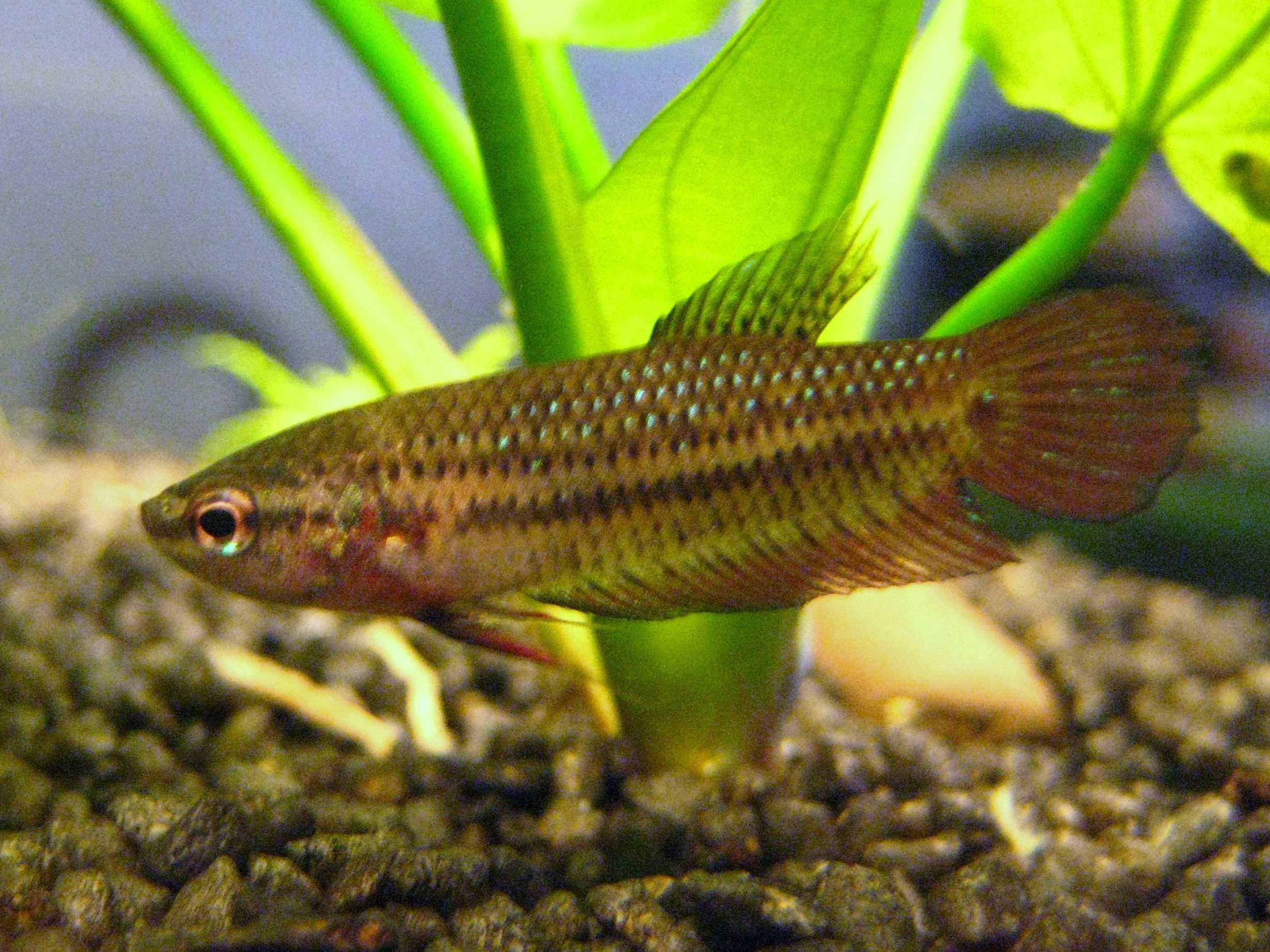 Betta tussyae (female)